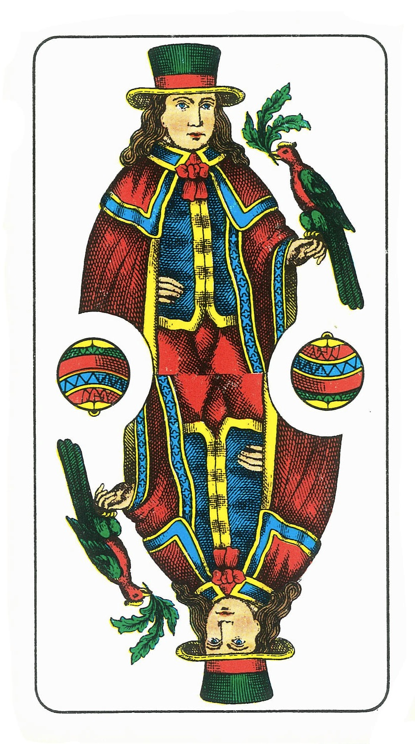 Ober of bells playing card from a German deck.